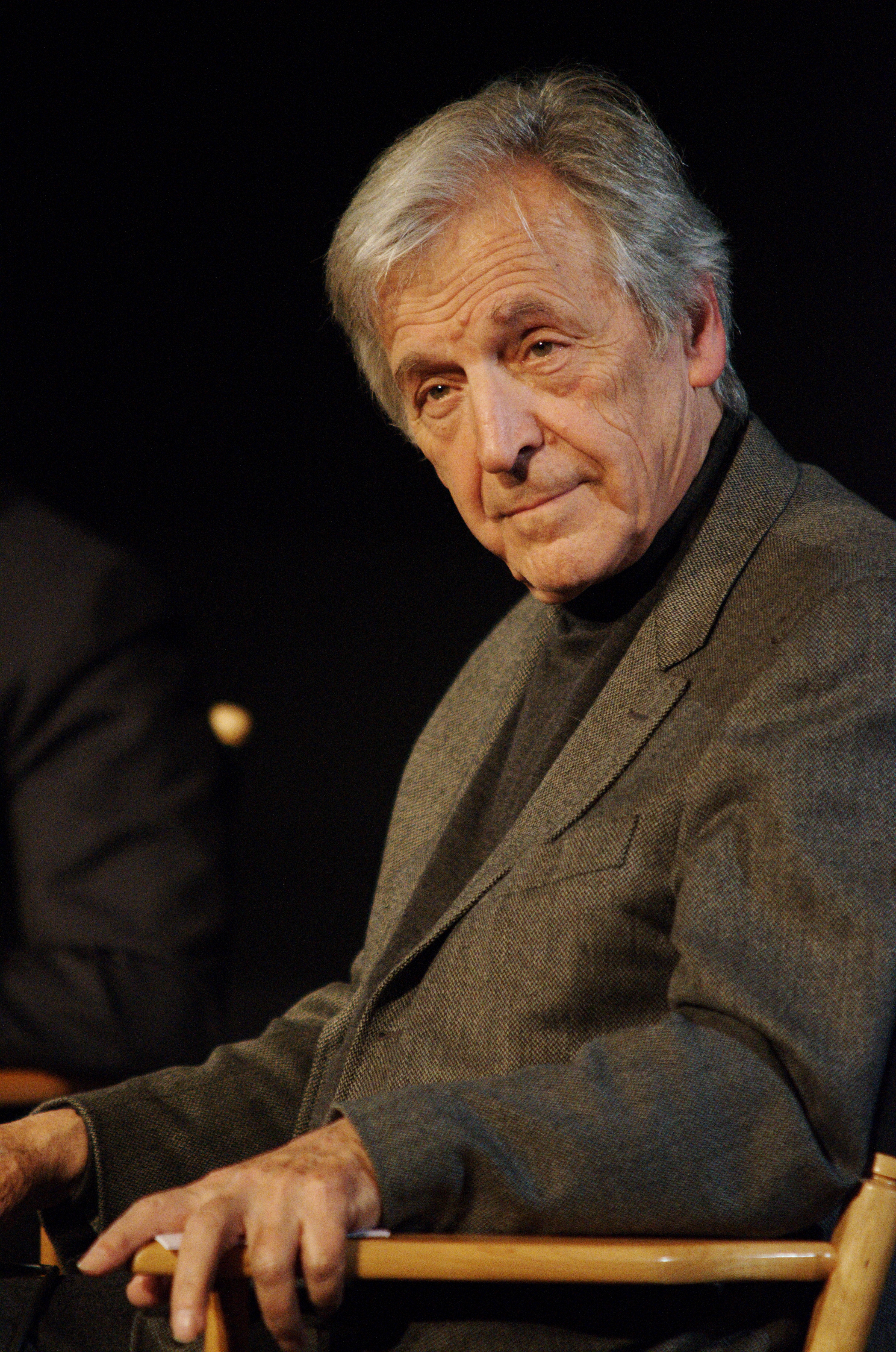 Costa-Gavras hosting Steven Spielberg's Masterclass at "La Cinémathèque Française" on January 9th 2012 in Paris.